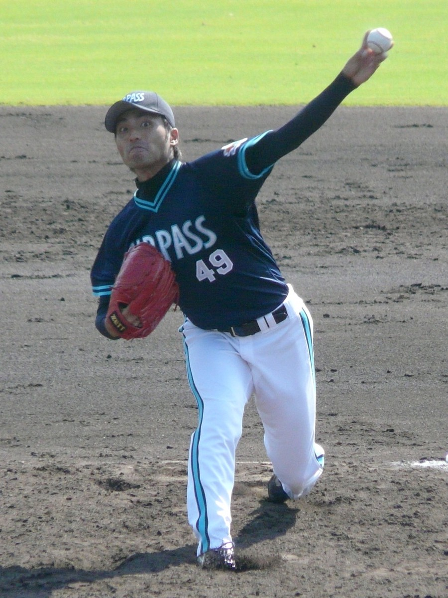 Shinya Nakayama, pitcher of the Surpass, at Hanshin Naruohama Baseball Ground.